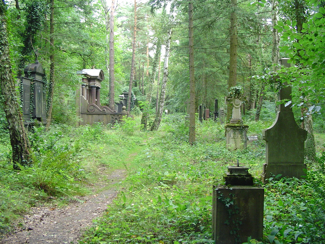 Südwestkirchhof Stahnsdorf near Berlin, Germany